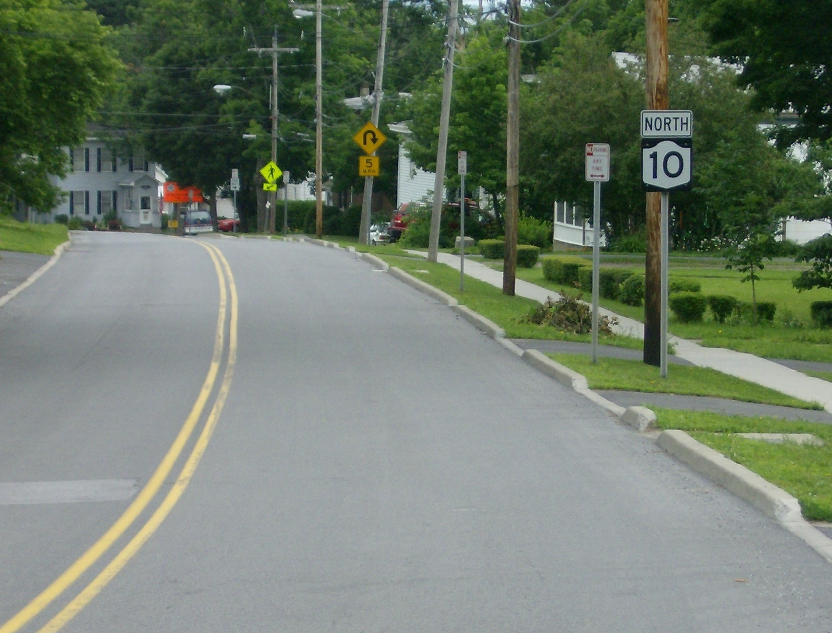 Route 10 as Reed Street in Canajoharie, heading downhill toward a street-level switchback used to descend a steep elevation in the village.